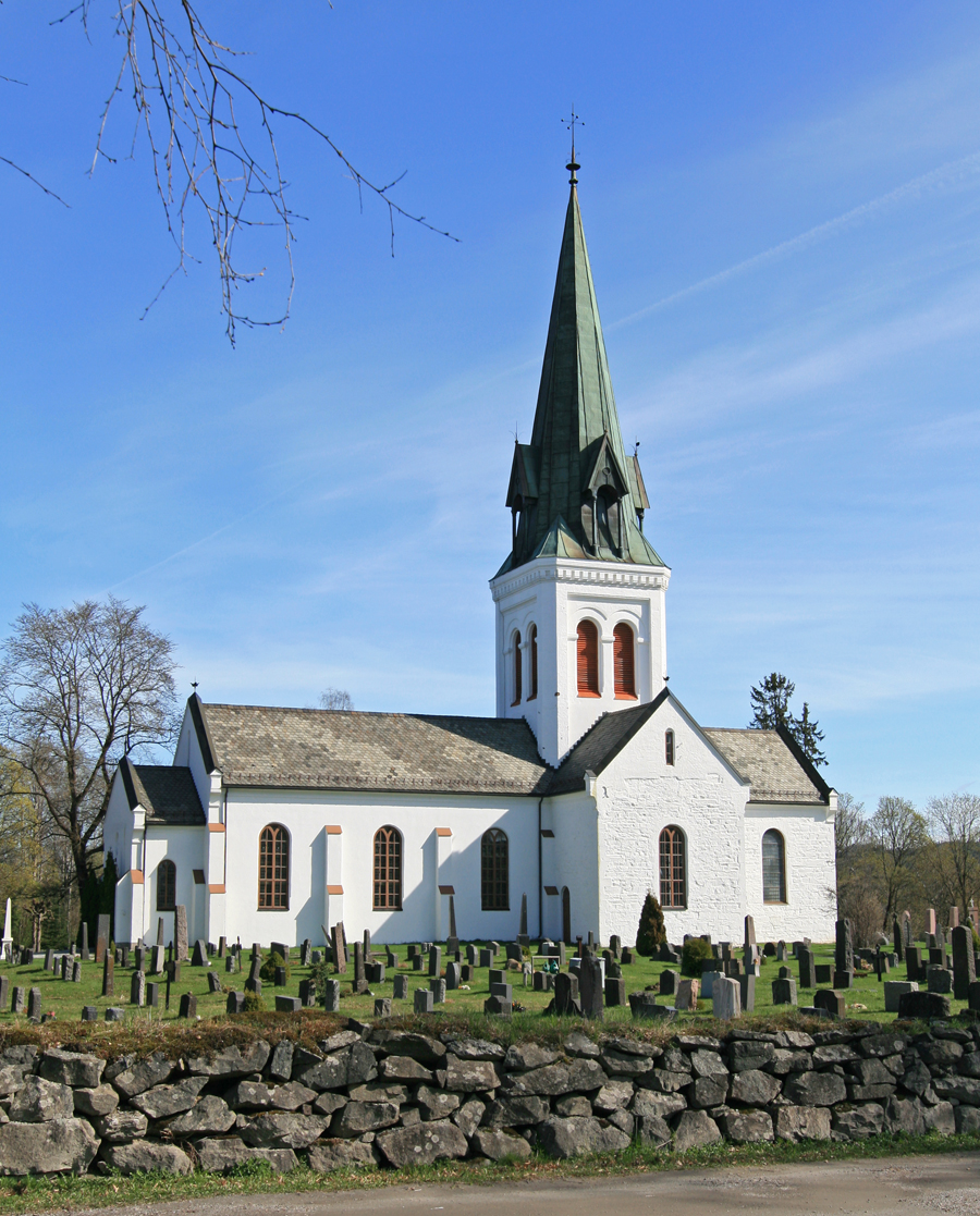 Eidsvoll church, Norway.Built by Lars Monsen